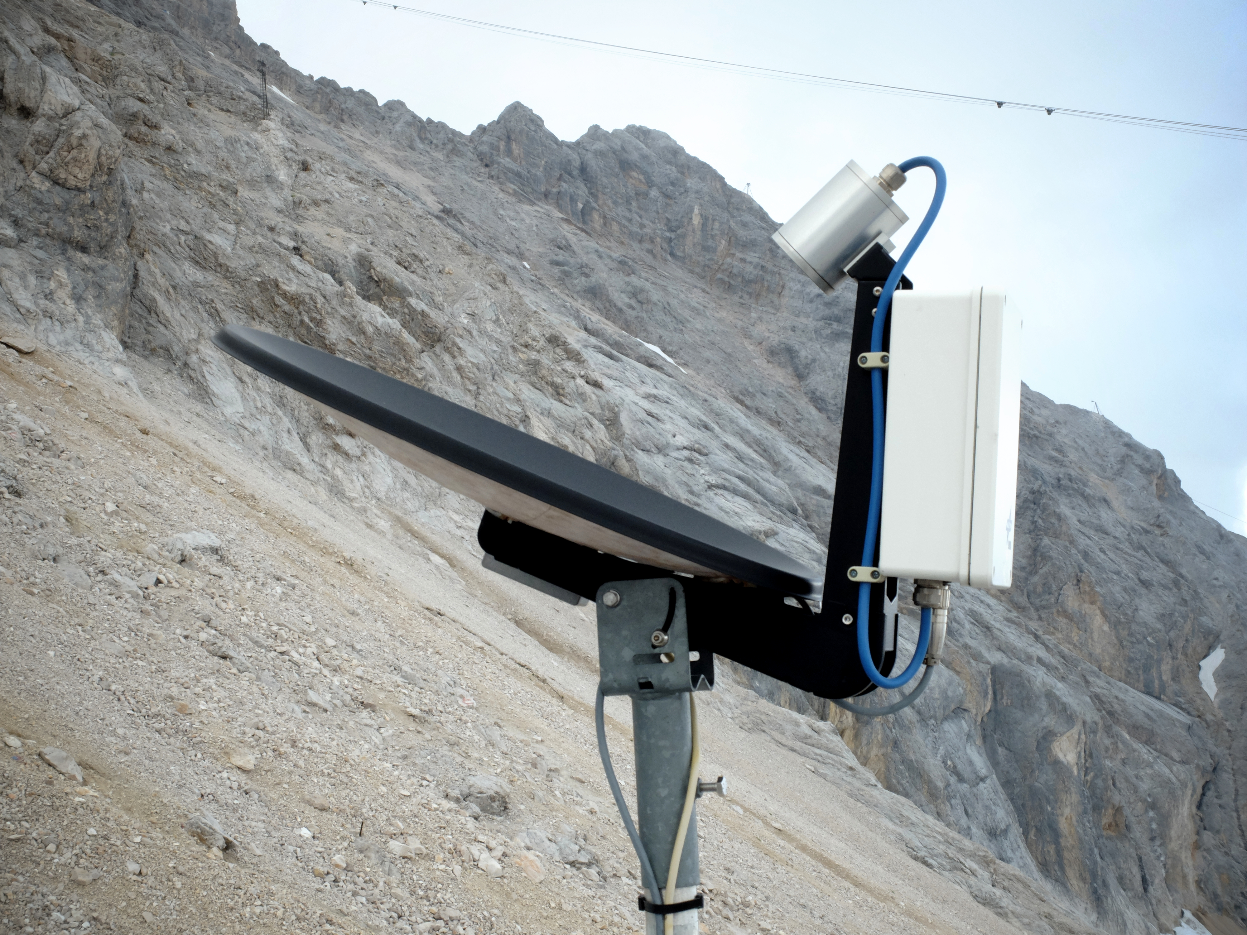 Micro Rain Radar (MRR-2) - small vertical-looking Doppler radar, measuring particles fall velocities and sizes, allowing to distinguish between ran and snow, operating at 24 GHz. Photo taken at the Schneefernerhaus observatory.